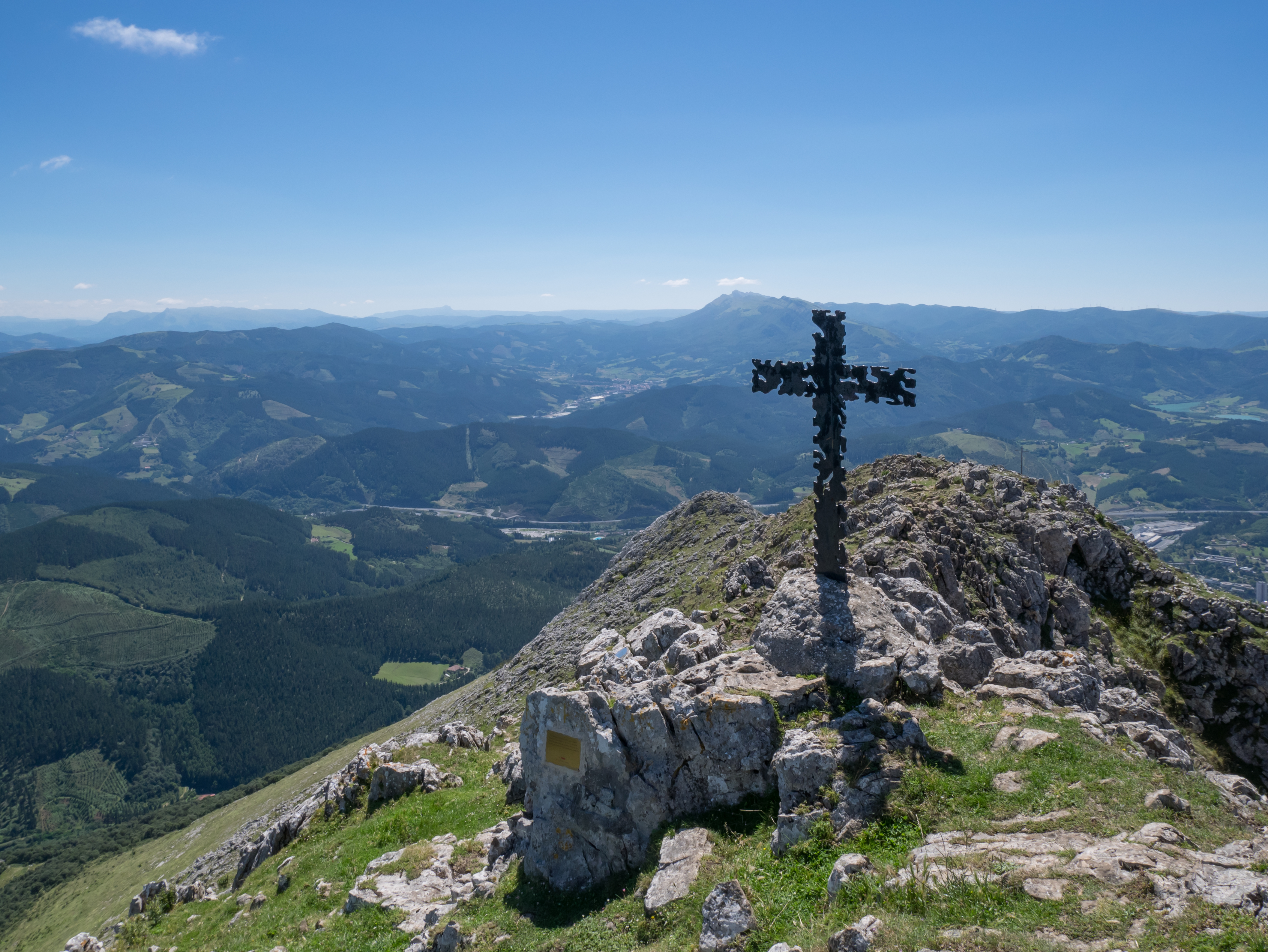 Summit cross of Udalaitz mountain. Basque Country, Spain